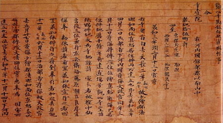 Official Register and Inventory for Kanshinji (観心寺縁起資財帳, Kanshinji engi shizaichō). Document containing the reason and circumstances of the establishment of Kanchin-ji temple and a list of the temple's assets from that time. Located at Kanchin-ji, Kawachinagano, Osaka, Japan. The item has been designated as National Treasure of Japan in the category ancient documents.